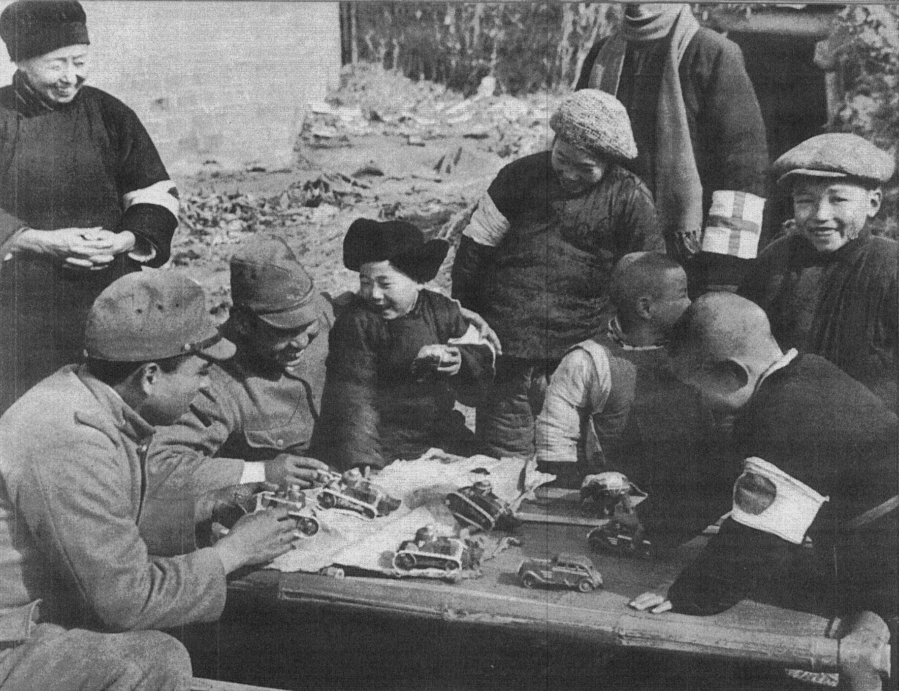 Japanese soldiers and Chinese children play with toy tanks in Nanking town. （December 20, 1937）